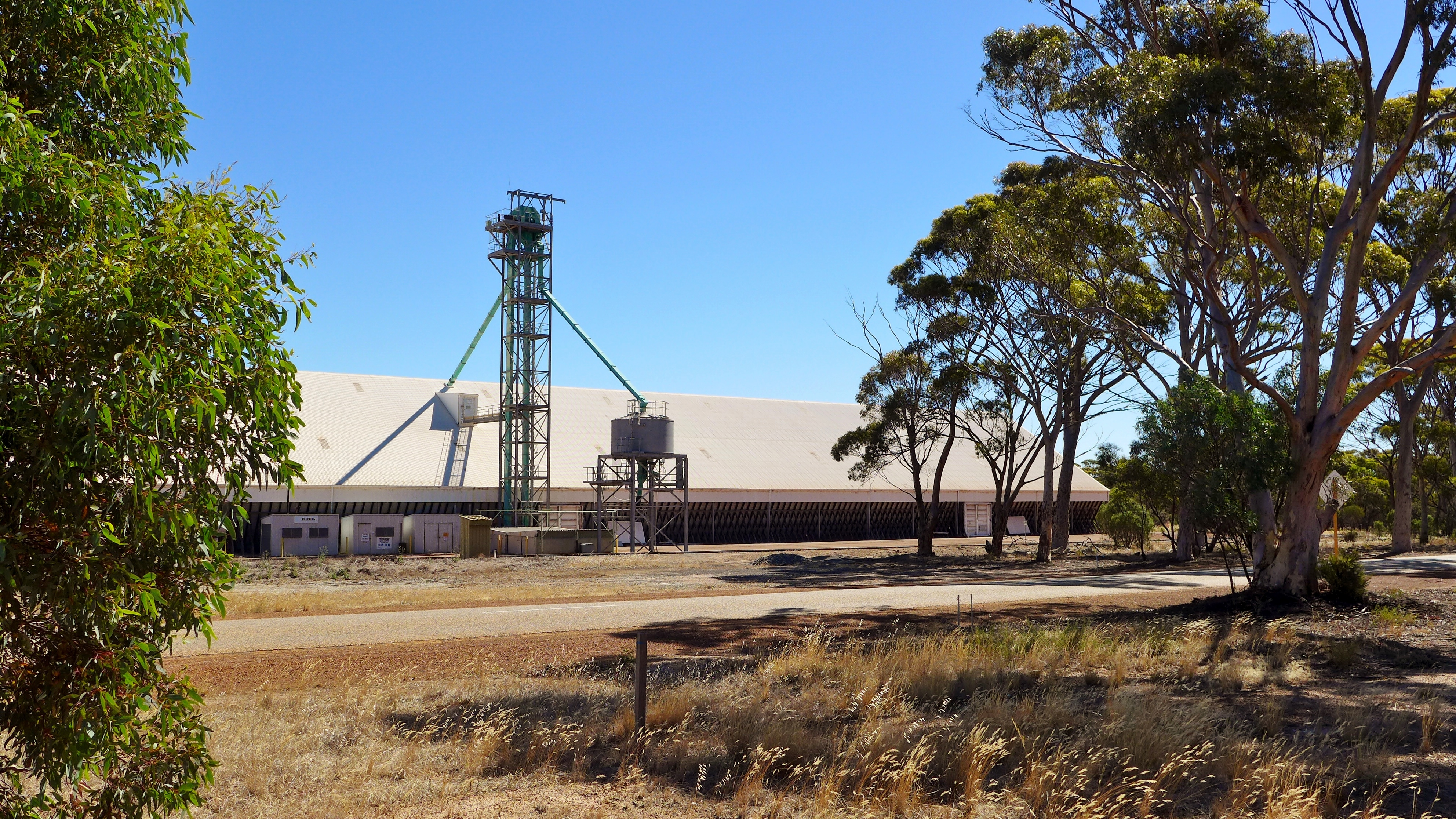 View of the CBH grain receival point, Jitarning, Western Australia.